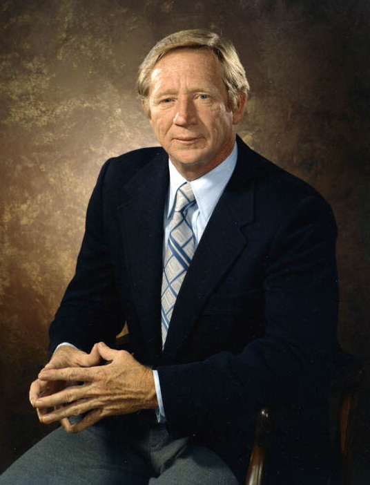 Dempsey J. Barron, Florida State Sentor